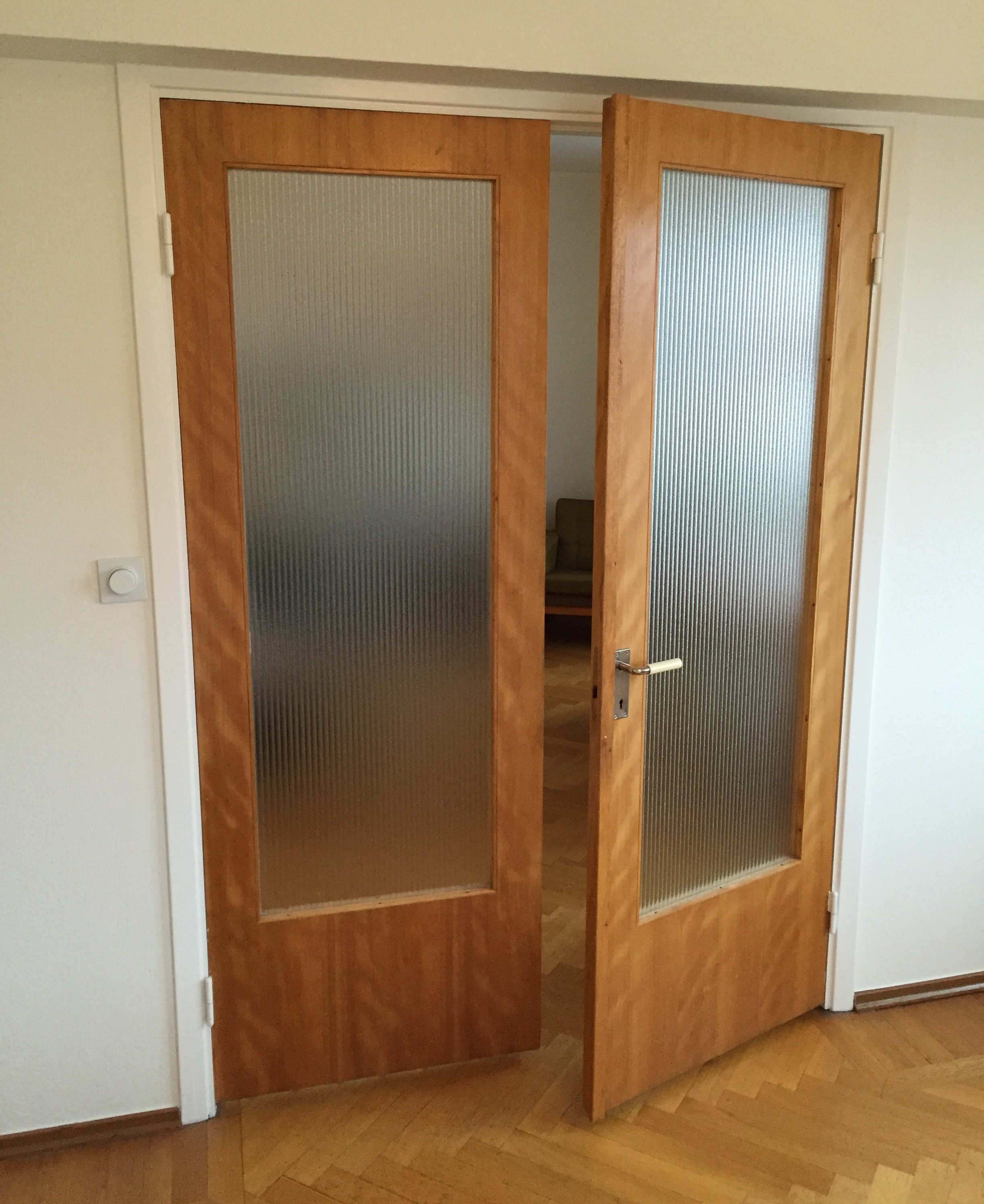 Werno-dörren